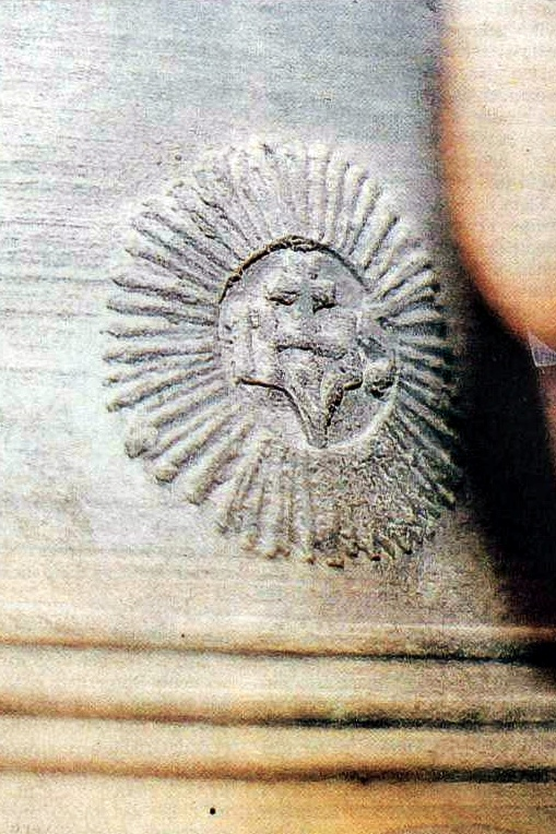 Detail von der Schraderglocke von 1751 auf dem alten Rathaus Grünstadt (verm. vom Jesuitenkloster Dirmstein)